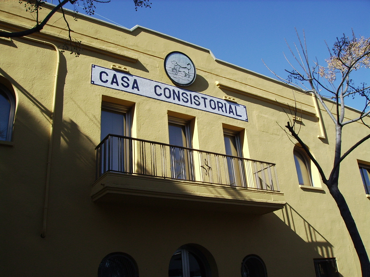 The council - Canovelles - Vallès Oriental - Catalonia